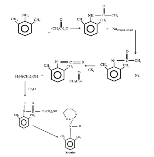 Synthesis of Xylazine